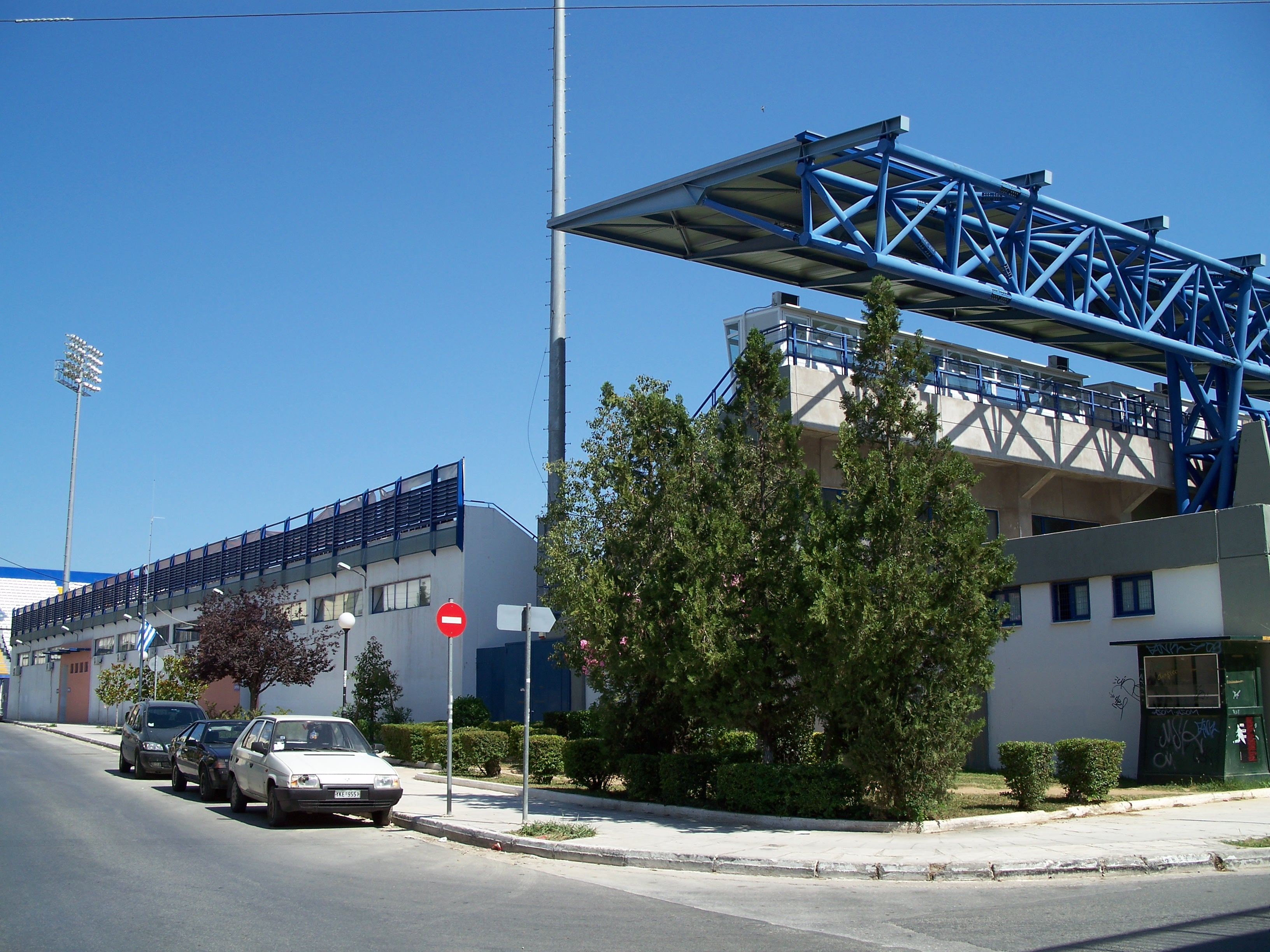 The stadium of the home team (Α.Ο.Αιγάλεω) at Egaleo, Athens.